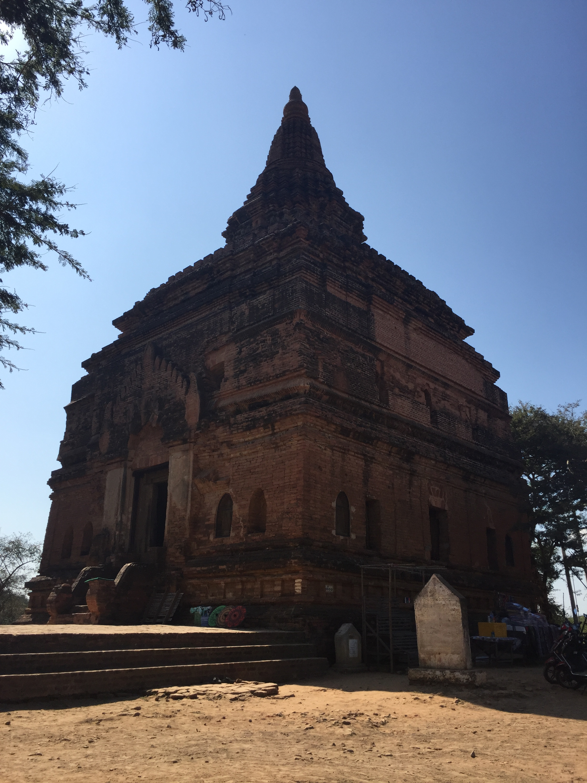 Nathlaung Kyaung, Bagan မြန်မာဘာသာ: နတ်လှောင်ကျောင်း